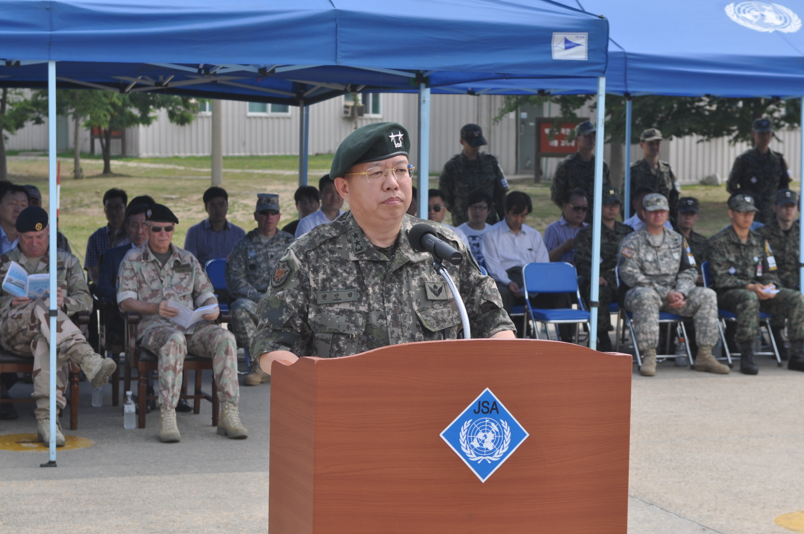 Republic of Korea Army Maj. Gen. Chun In-bum, the South Korean Senior Member of the United Nations Command Military Armistice Commission, makes his remarks during the ceremony for the 9th anniversary of Joint Security Area Republic of Korea Army Battalion atCamp Bonifas in Panmunjom, South Korea, July 1, 2013.